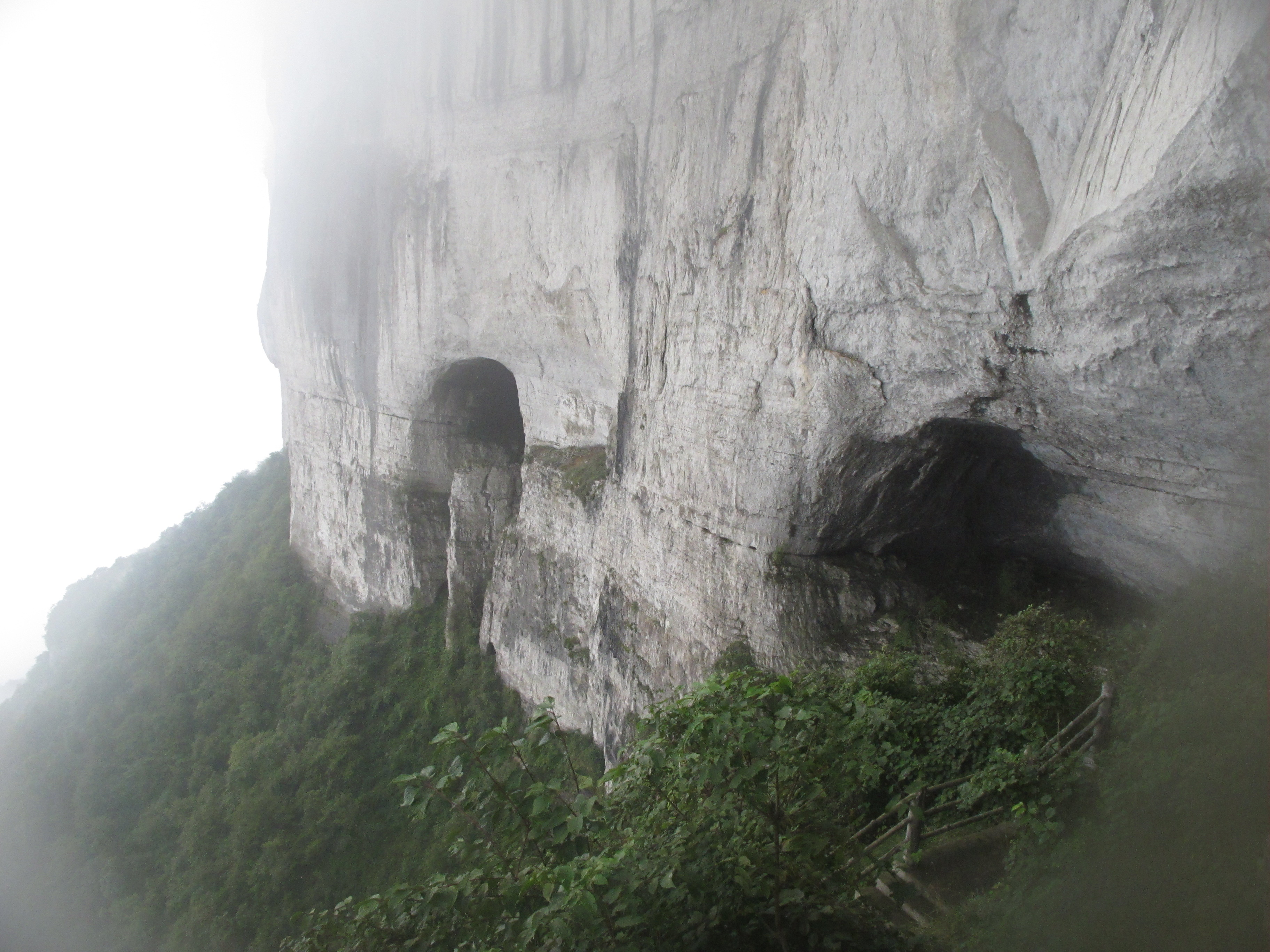 Jinfoshan Karst - South China Karst